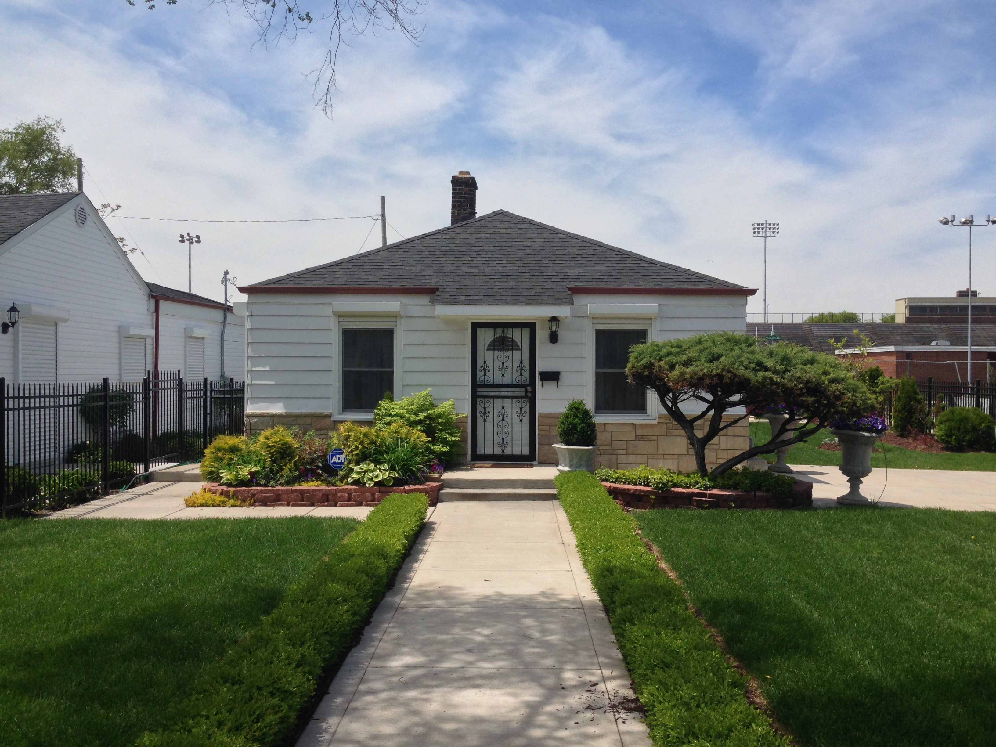 Michael Jackson's birth house in Gary Indiana